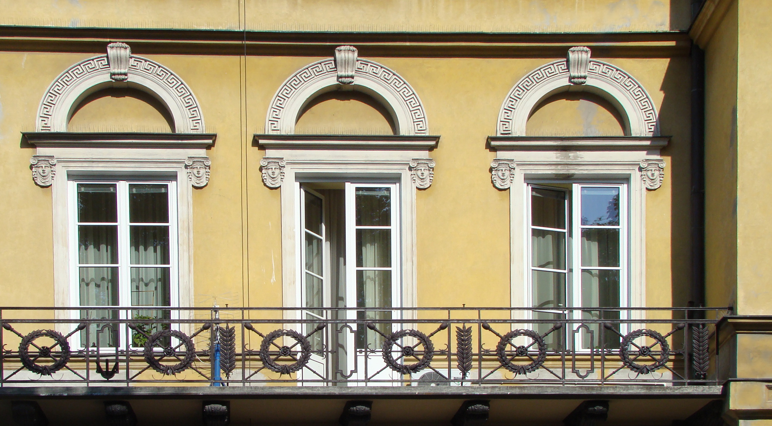 Main Measure Ofiice, Warsaw, 2a, Elektoralna St., detail